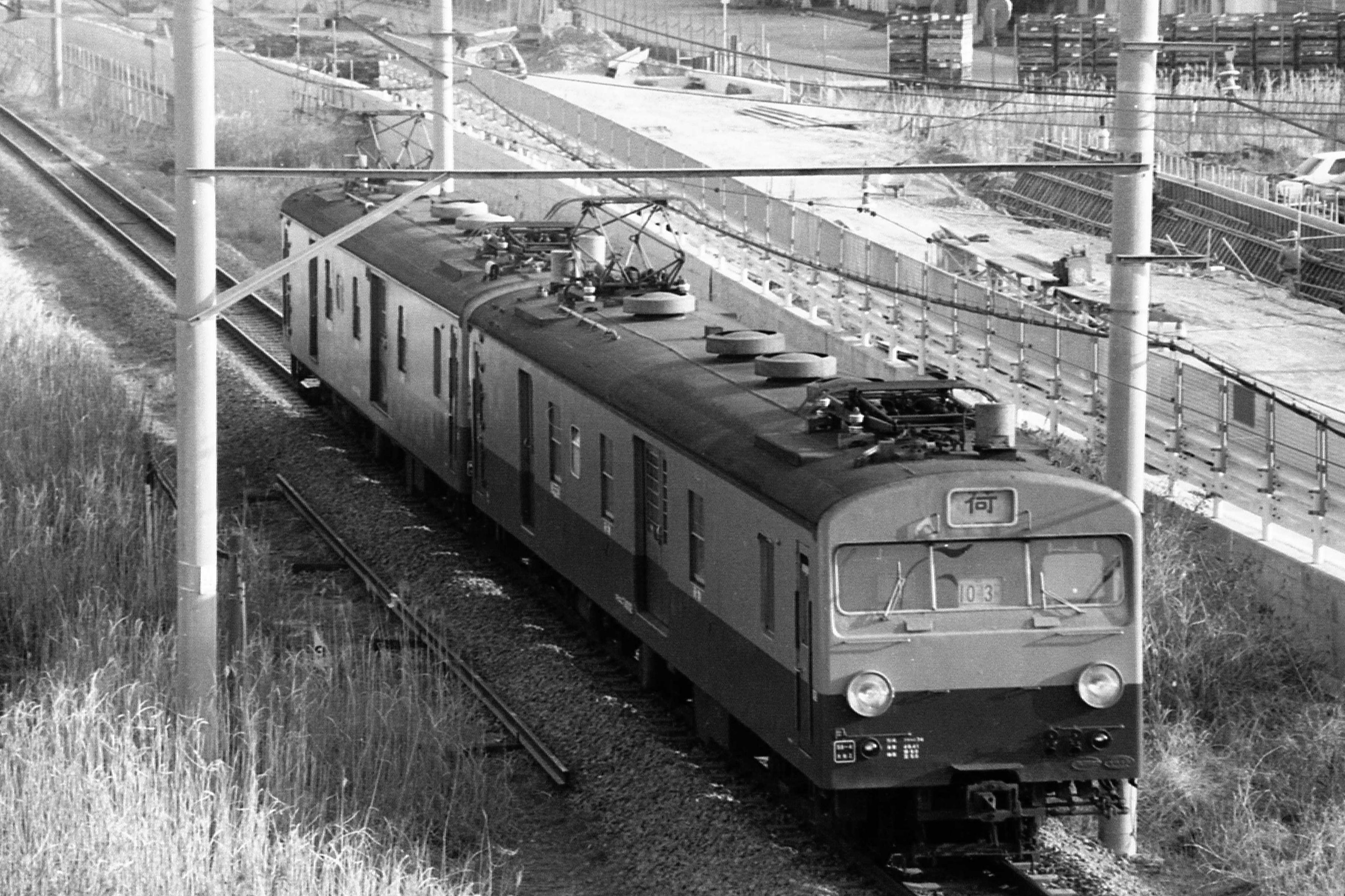 JNR Kumoyuni 74 running between Kinugawa and Kurihama